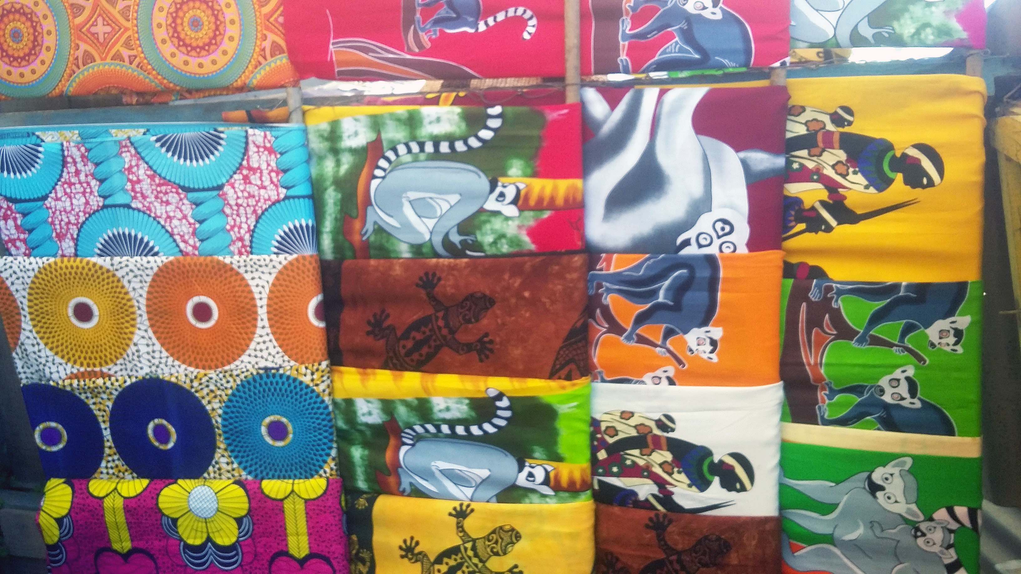 The "lambahoany" is a rectangular fabric made of fiber hemp, rafia, cotton or self. It is also called Salovana or Kisaly which is one of the traditional Malagasy clothes. This is an image with the theme "Play" from: Madagascar